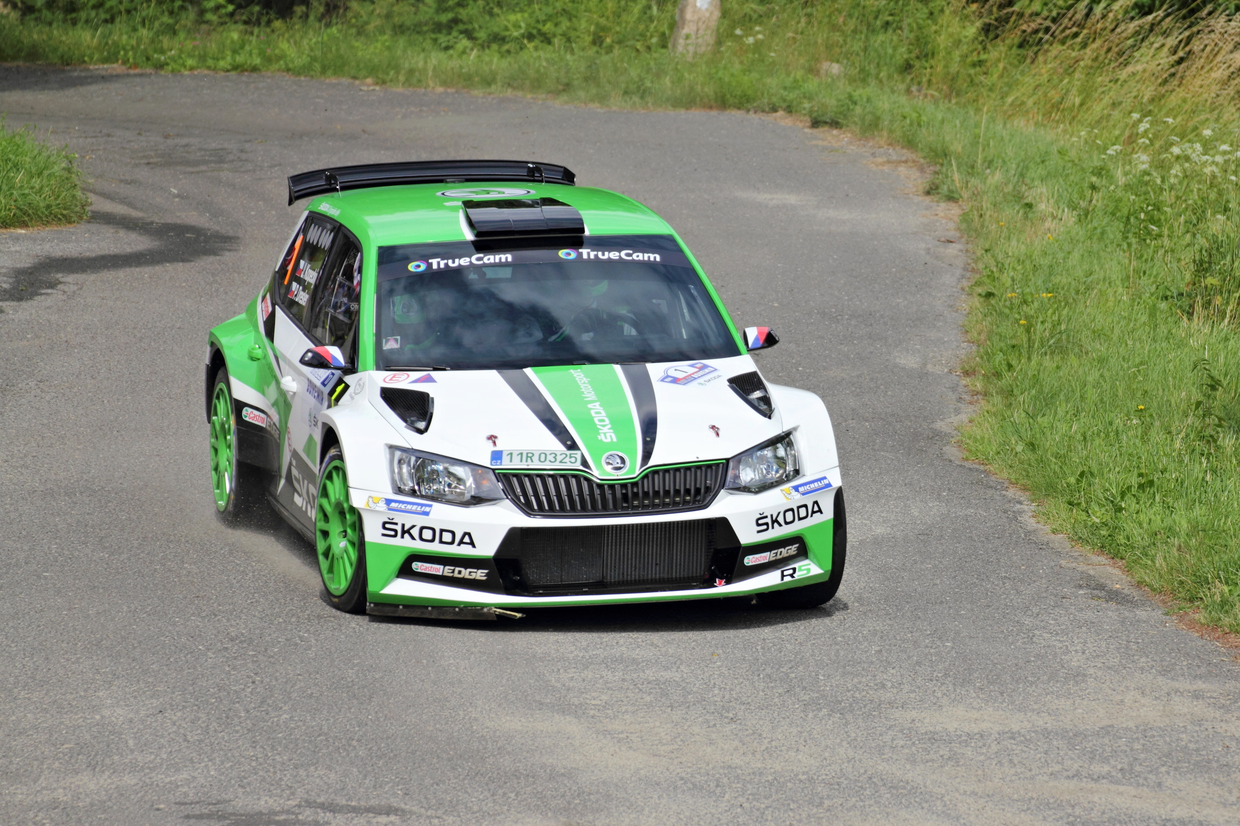 Kopecký-Dresler, Škoda Fabia R5, 2017 Rally Bohemia